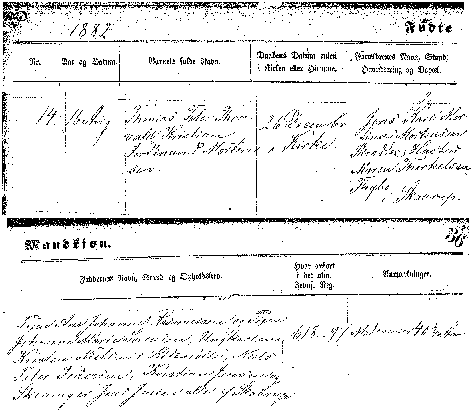 Christian Mortensen’s birth record, from Skanderborg county, Hjelmslev hundred, Fruering parish, village of Skårup, Denmark.